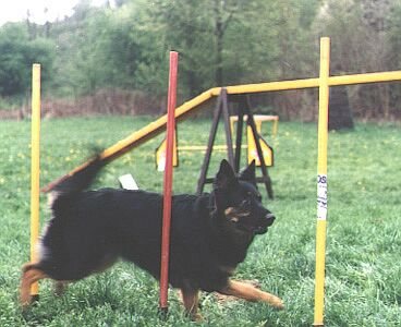 Bohemian Shepherd dog, Chodsky Pes or Chodenhund running between slalom poles.